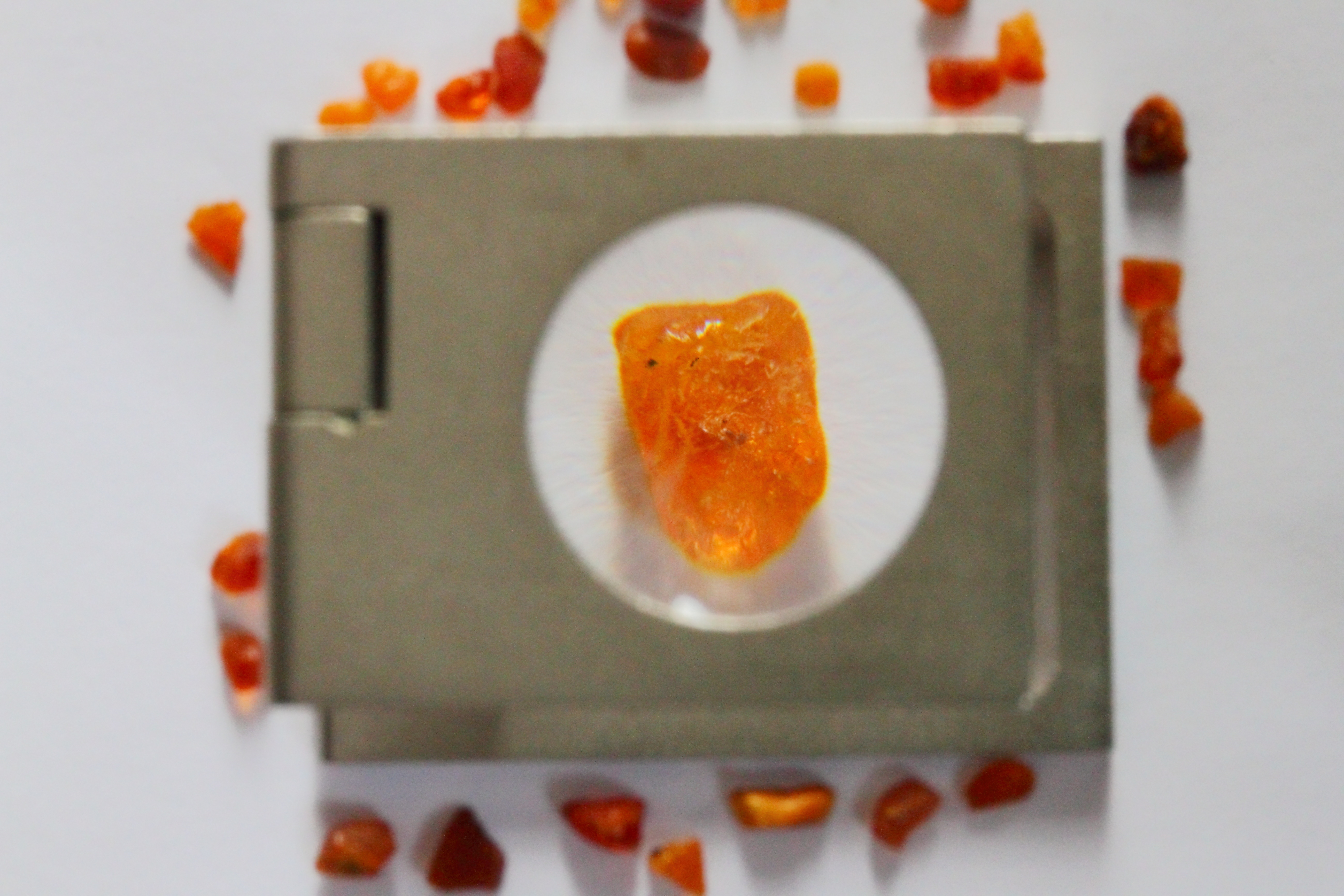 Crumbs of raw polish amber under the loupe of a linen tester.